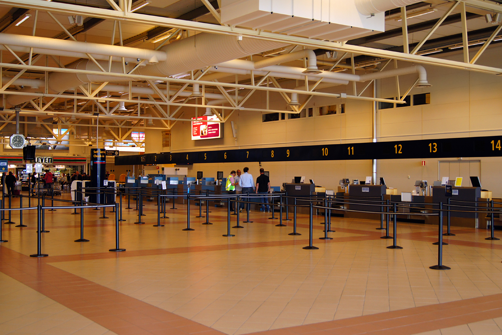 Inside of Terminal at Malmo Airport